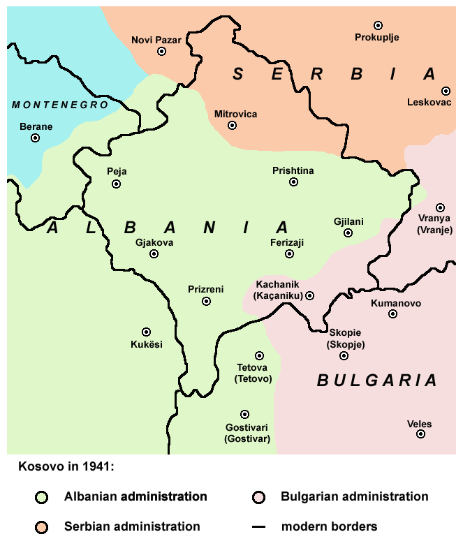 Division of modern-day territory of Kosovo between Axis states in 1941.